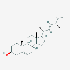 Chemical Structure of Epibrassicasterol (also called Crinosterol)